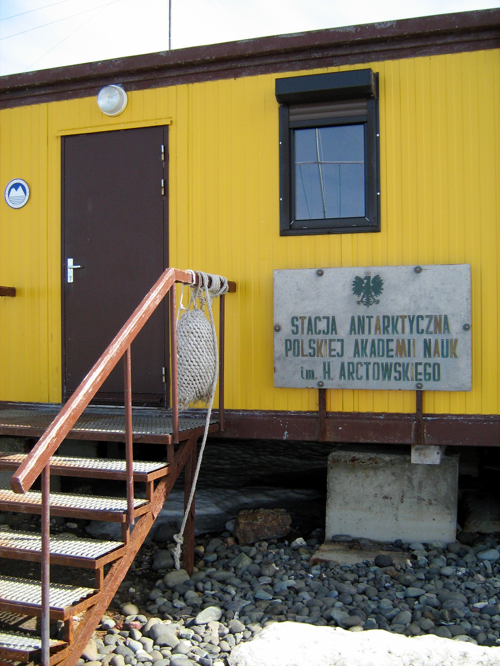 Henryk Arctowski Polish Antarctic Station main building